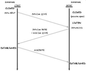 3-way-handshake